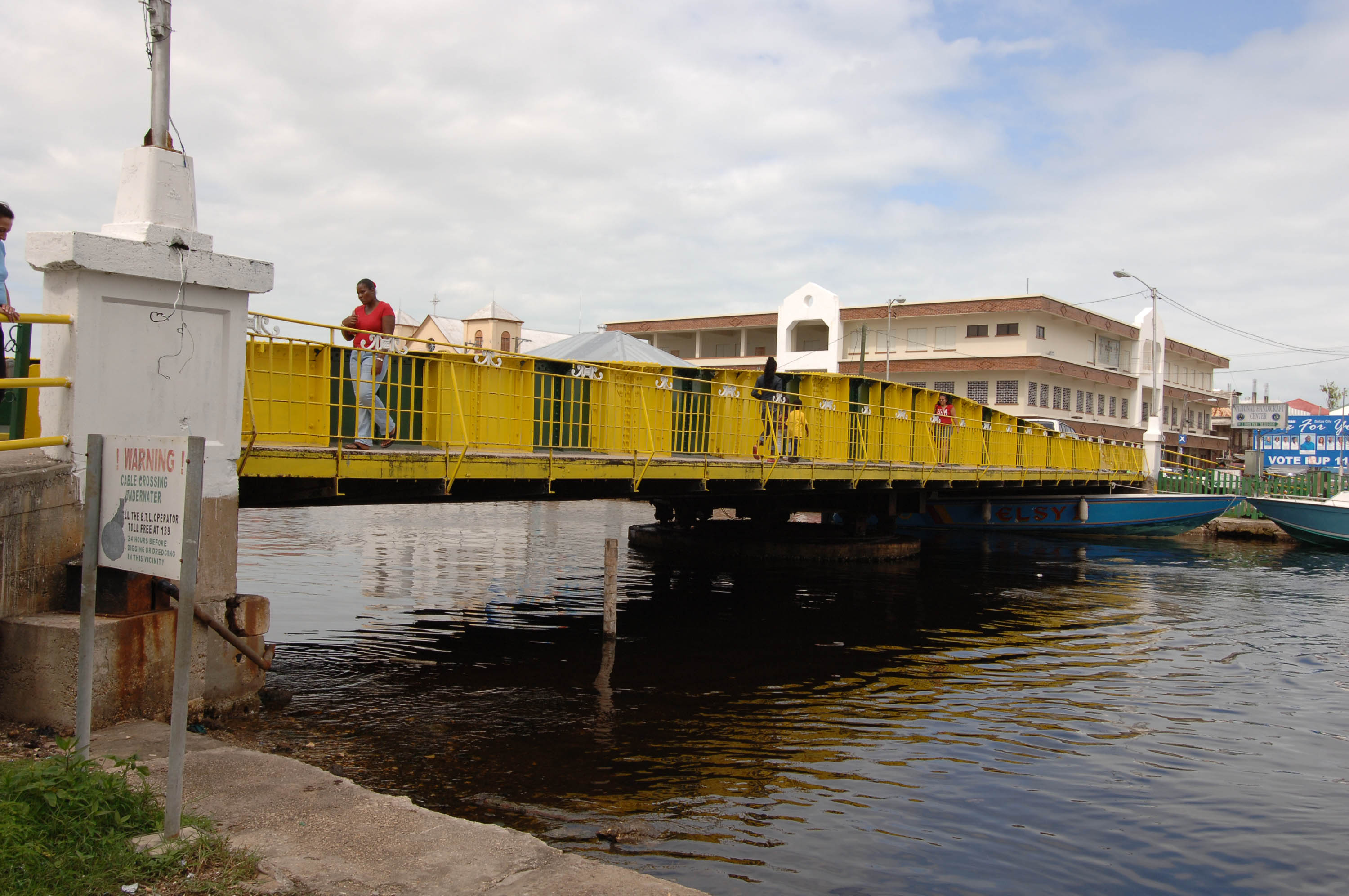 SWING BRIDGE OVER HAULOVER CREEK; BUILT IN 1923 IN LIVERPOOL AND IS MANUALLY OPENED AT 5:30 A.M. AND P.M. IT IS THE ONLY OF ITS KIND IN THE WORLD